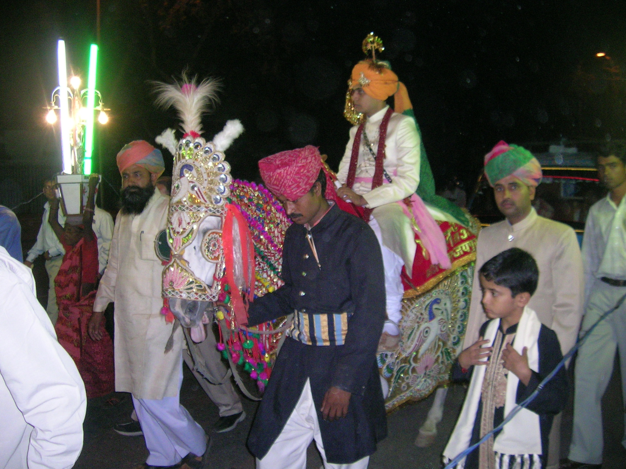 Bridegroom arrives on horseback at a Rajput wedding